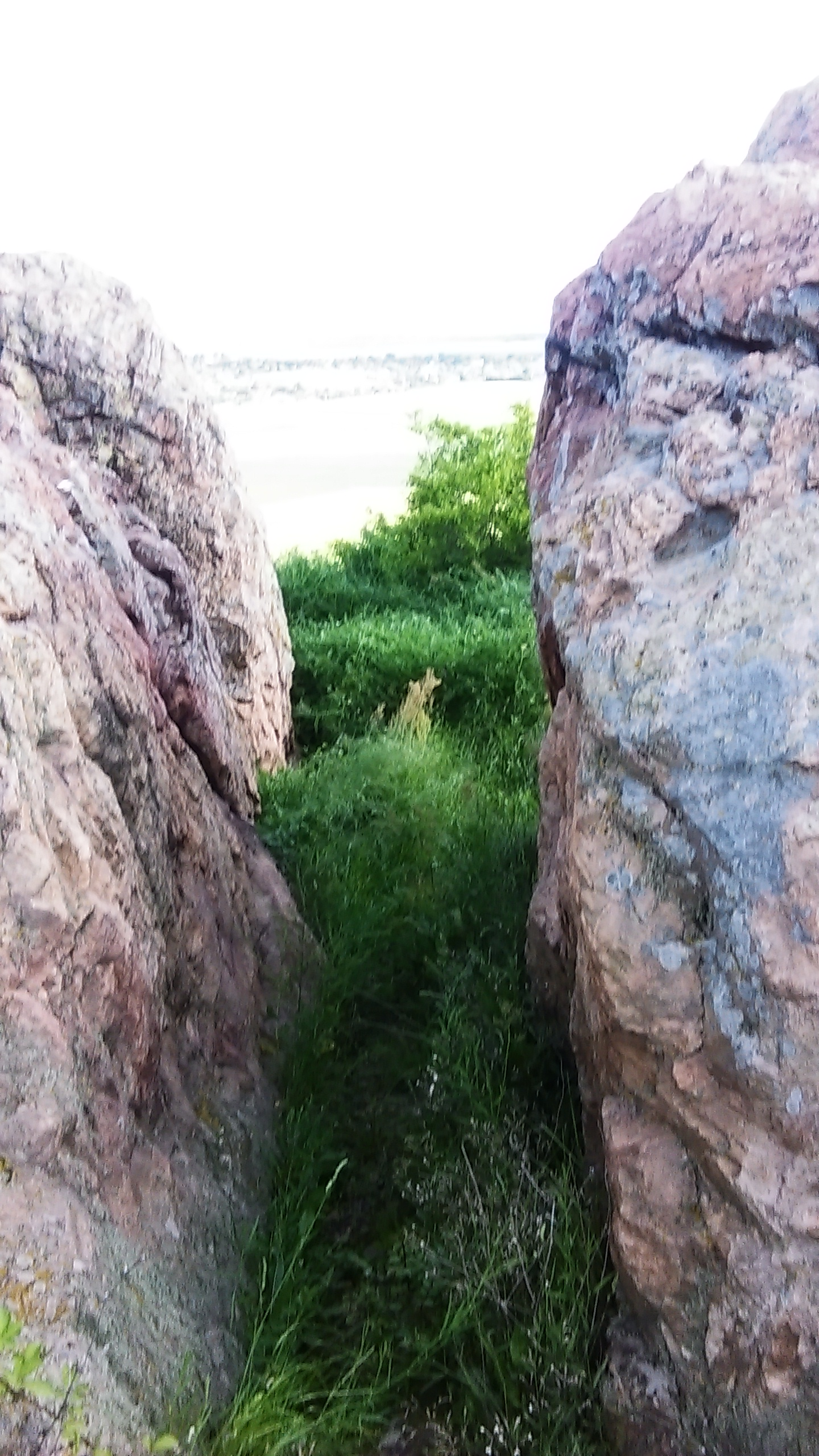 Zaychi vrah near Kabyle